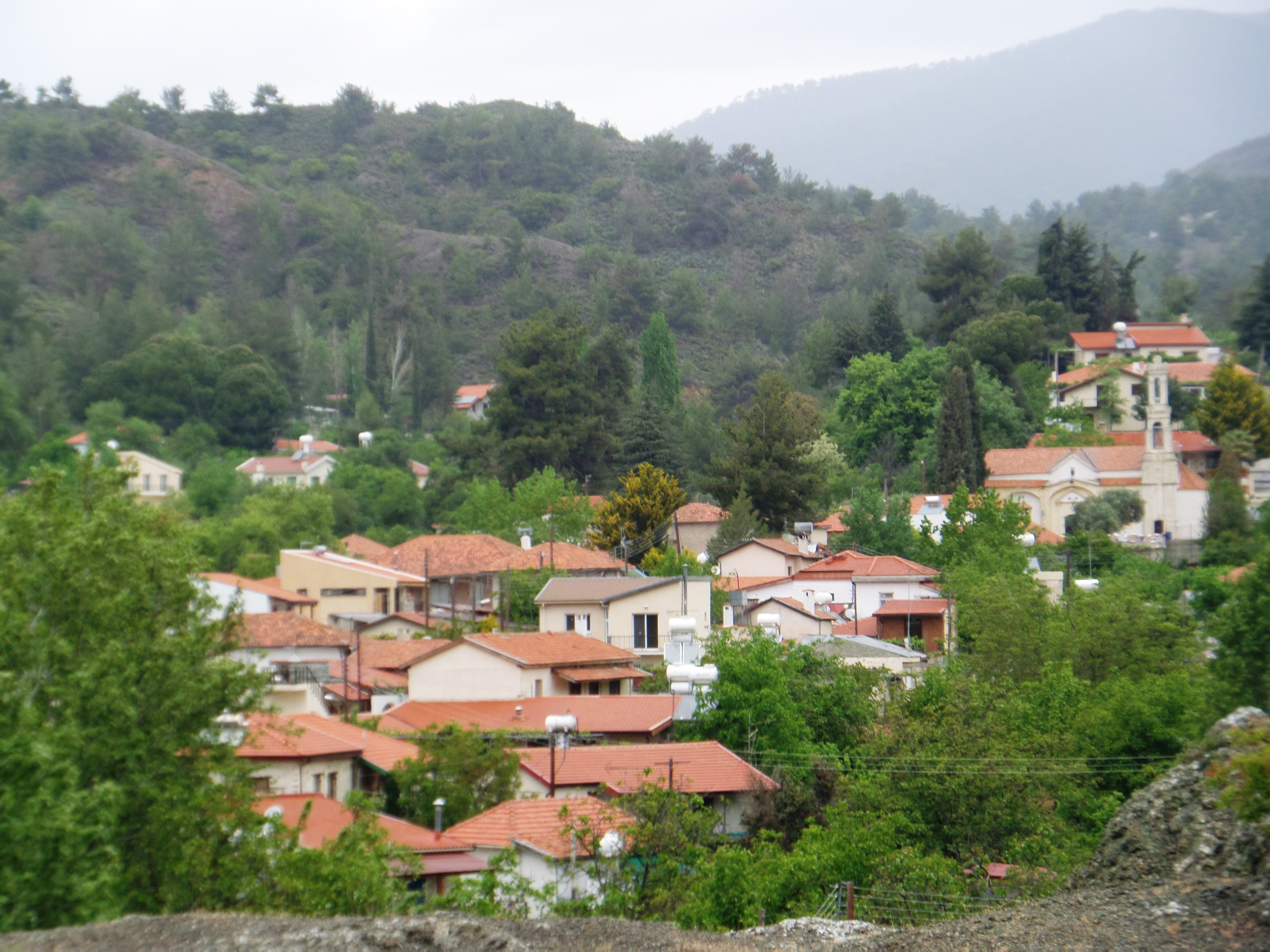 View of Mandria, Limassol.